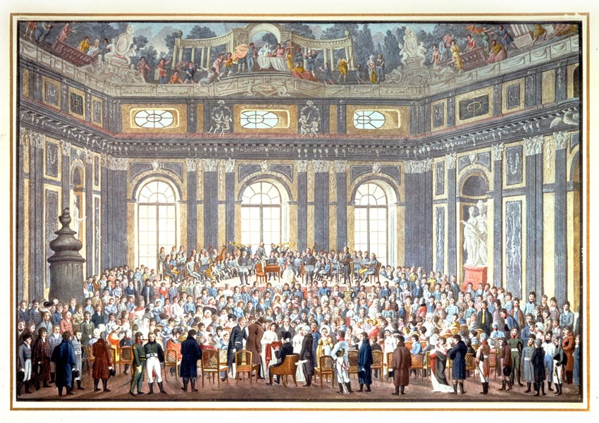 Color print, from 1909, of a watercolor on the lid of a stationery box made by Balthazar Wigand and presented to the composer Joseph Haydn. It commemorates Haydn's attendance, in extreme old age, of a performance of his oratorio The Creation. (The composer can be seen seated in the lower center of the image, wearing wig and hat.) The original of this picture was lost in 1945.